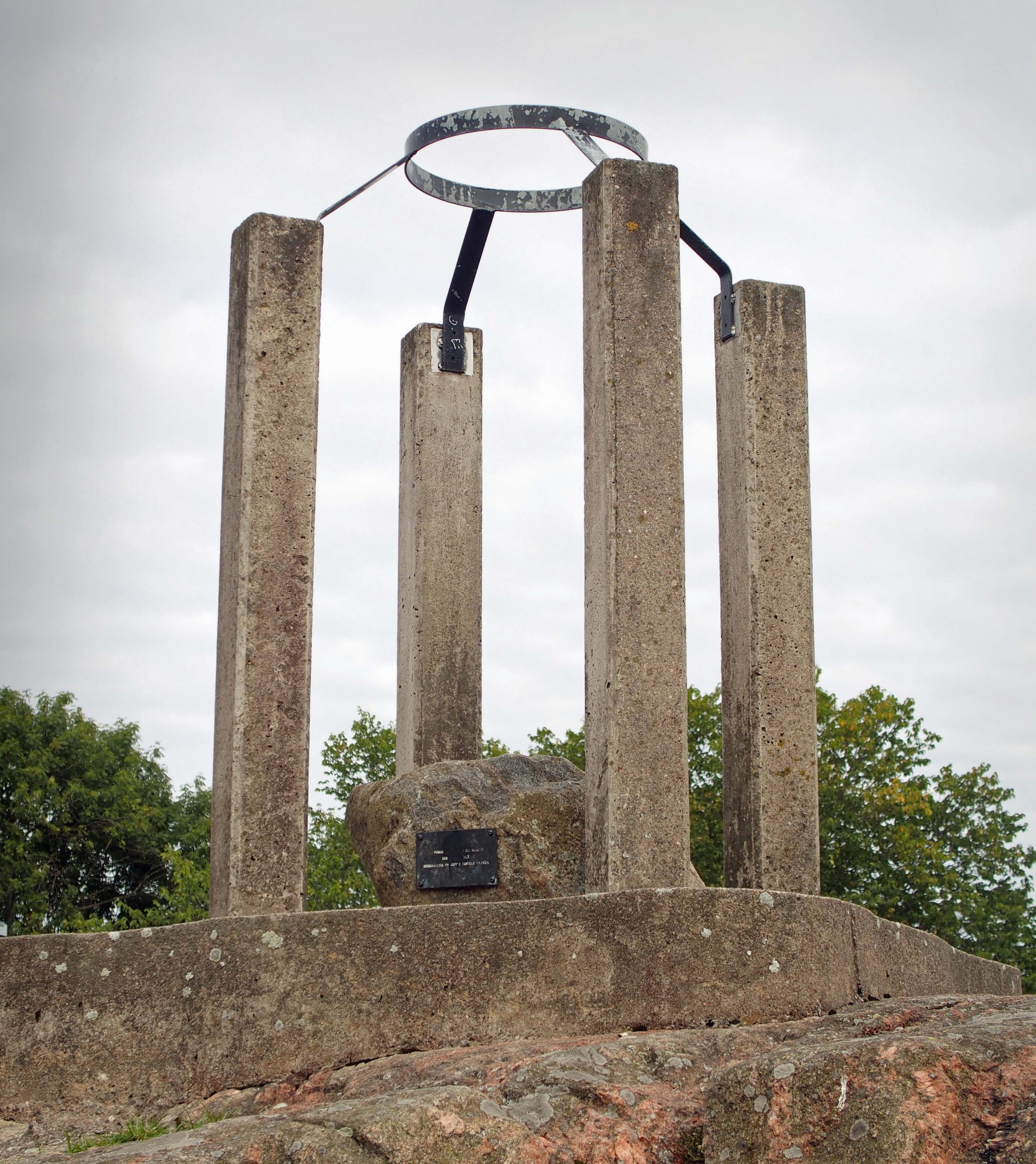 Amateur sculpture by unknown artist to commemorate an alleged hanging site from the medieval times until the 18th century on Kerttulinmäki hill, Turku, Finland.